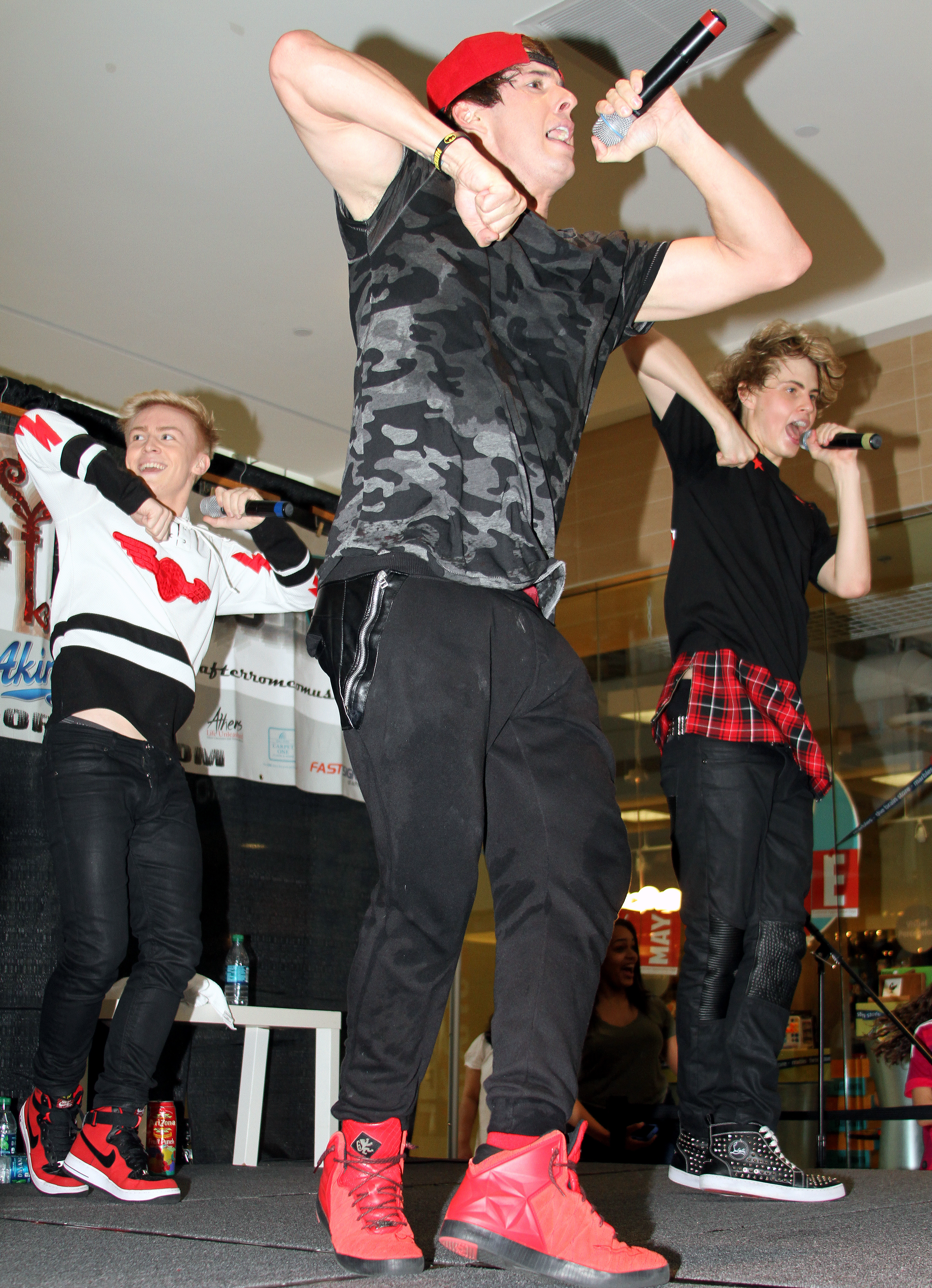 After Romeo members Jayk Purdy (foreground) with Devin Fox and Blake English (background) performing at the May 10, 2014 concert in Peabody, Massachusetts.